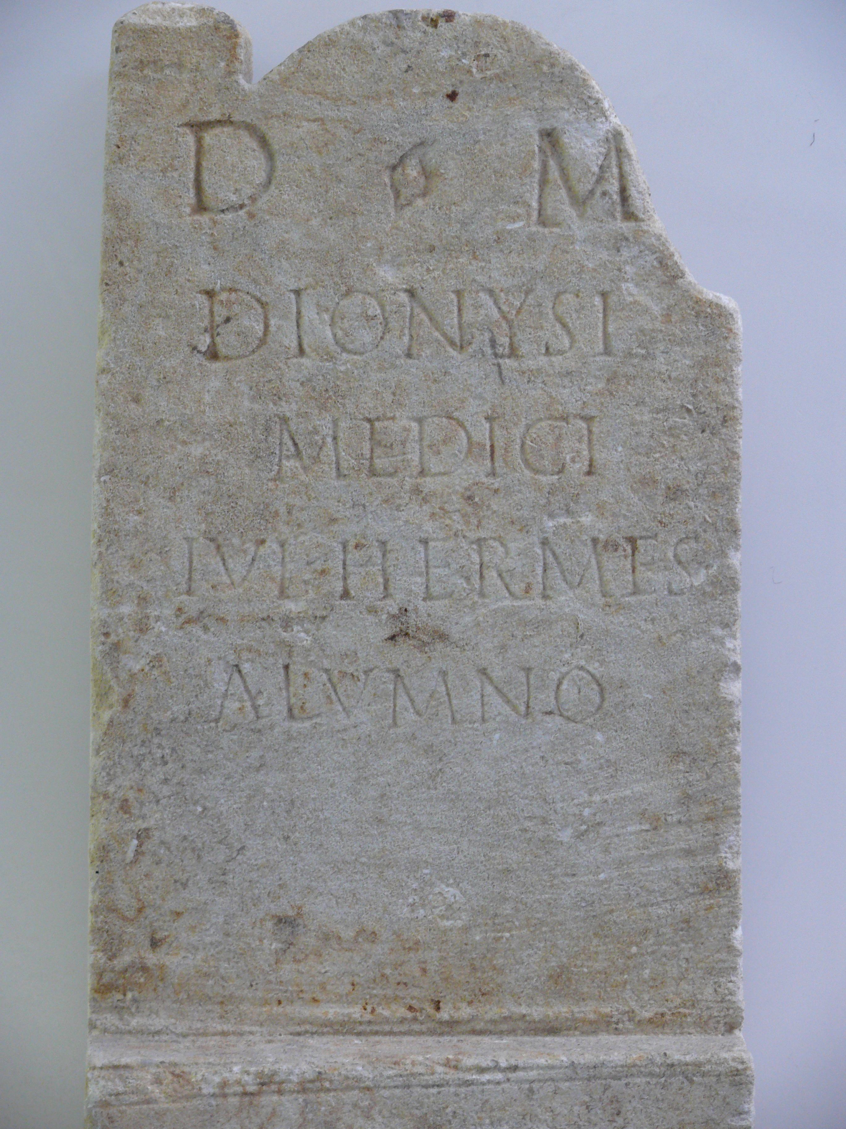 Funerary stele, limestone. End 1st century-2nd century Musée de l'Arles et de la Provence antiques Found in 1875 during works for the Gare maritime in Trinquetaille. "To the manes-gods of Dyonisius, physician; Julius Hermes, to his pupil."